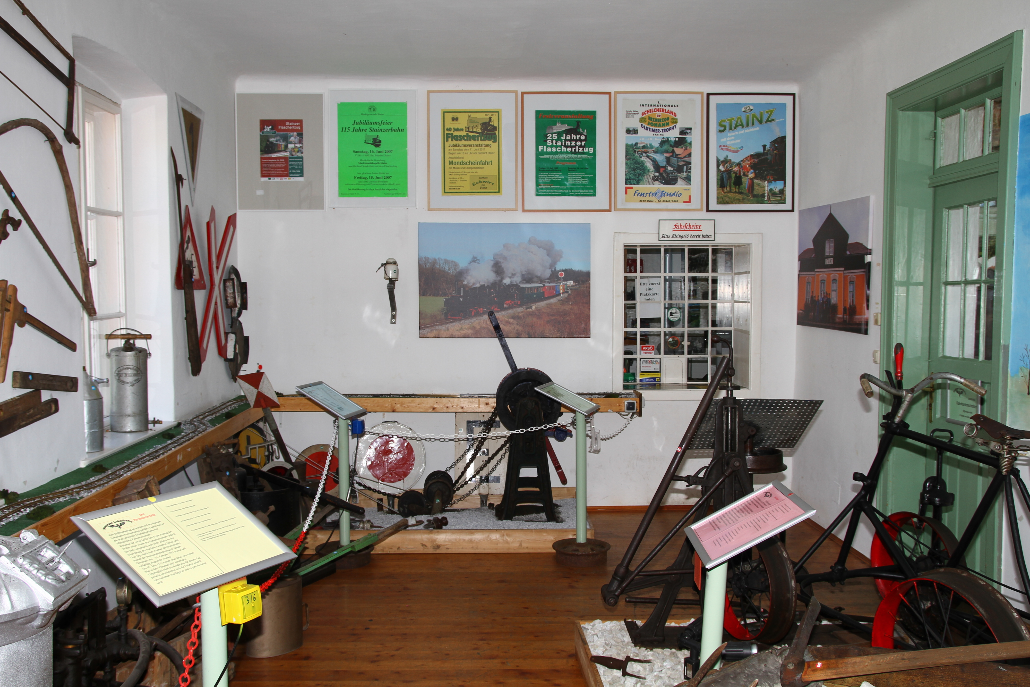 Stainz station, railway museum in the former passenger waiting room.